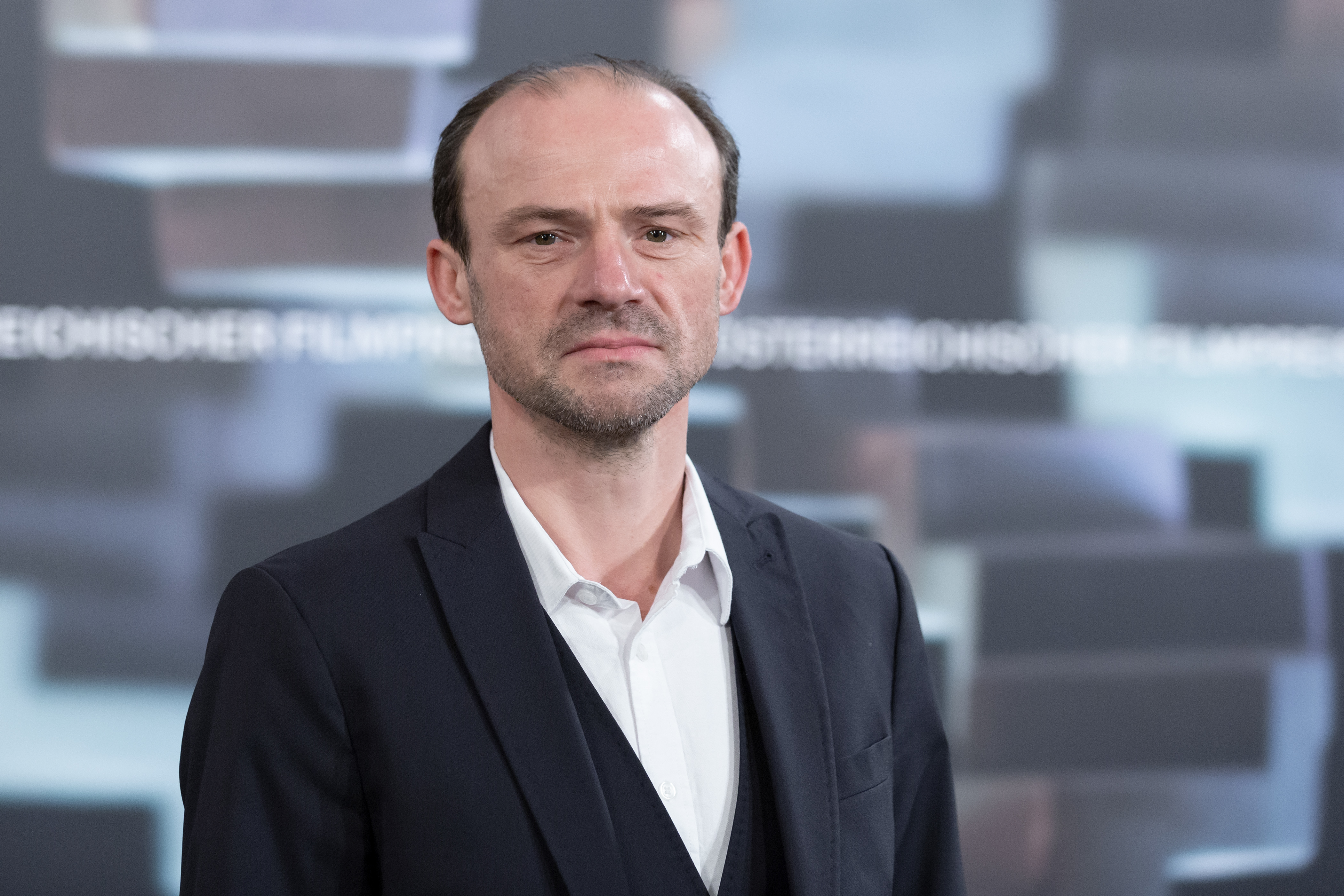 Gerhard Liebmann, photo call at the Austrian Film Awards 2019 (Rathaus, Vienna,Austria).